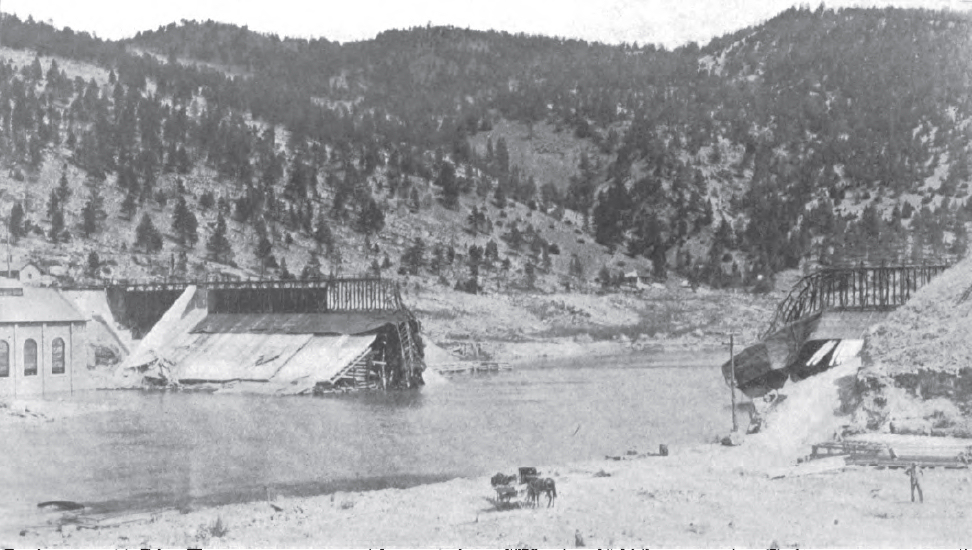 Looking upstream at Hauser Dam in Lewis & Clark County, Montana, United States, in 1908 after the steel dam's catastrophic collapse on April 14, 1908. A 300 feet (91 m) center section of the dam has broken away, leaving only the ends attached to bedrock on either side. The spillway with its supporting timbers, can be seen on the left side of the image. The undamaged powerhouse is just visible on the far left.